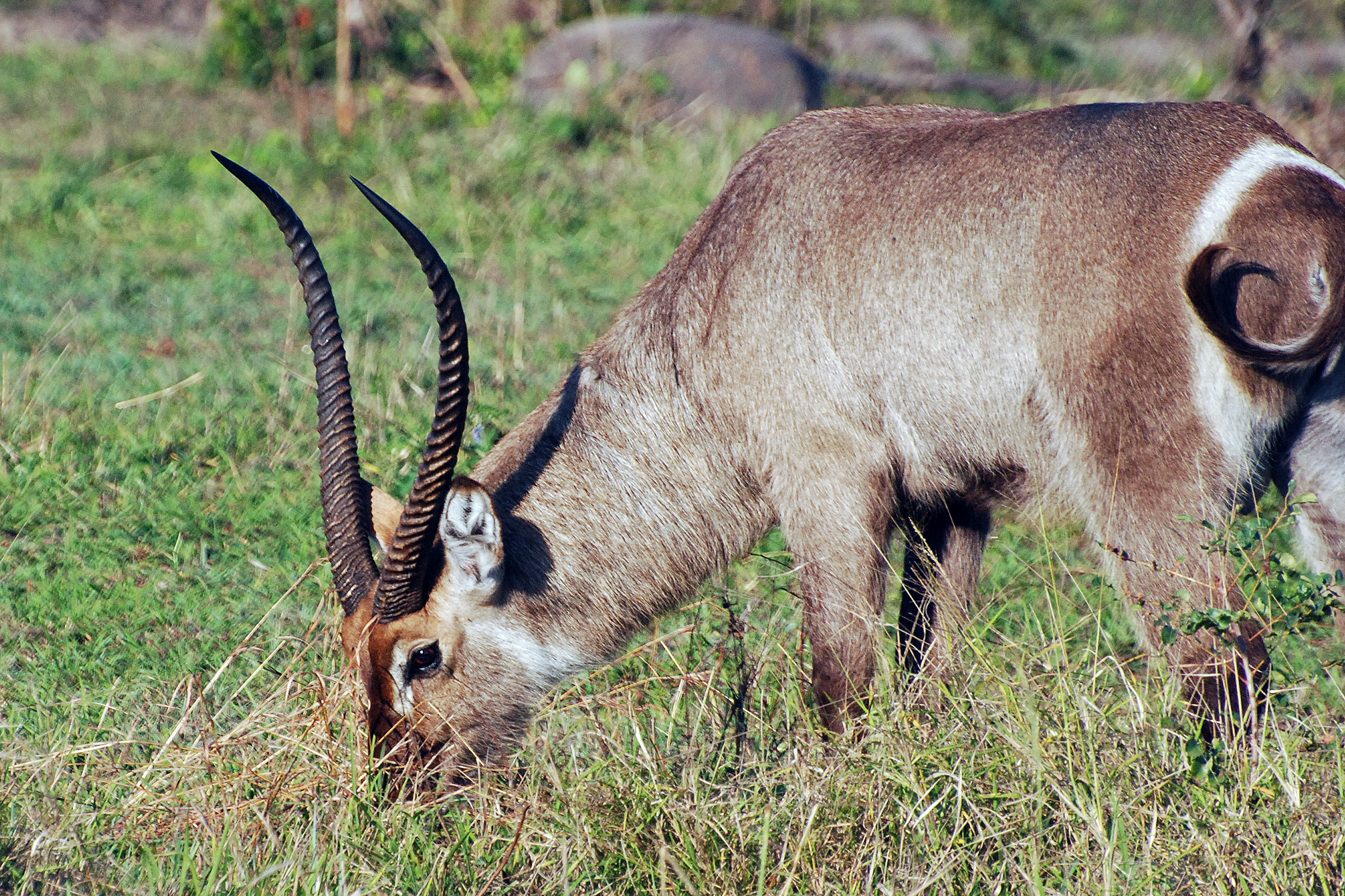 The Waterbuck (Kobus ellipsiprymnus) is a large antelope found widely in Sub-Saharan Africa.